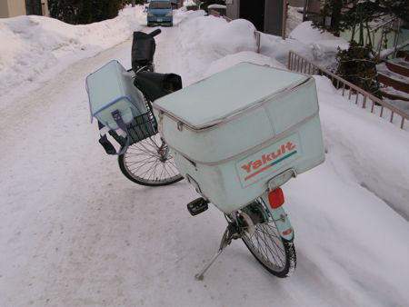 A delivery bicycle of Yakult in Sapporo, Hokkaidō, Japan.